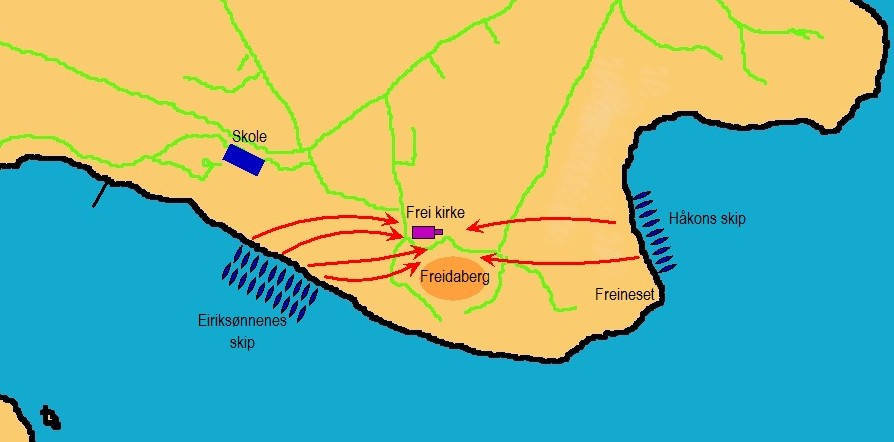 Battle of Rastarkalv